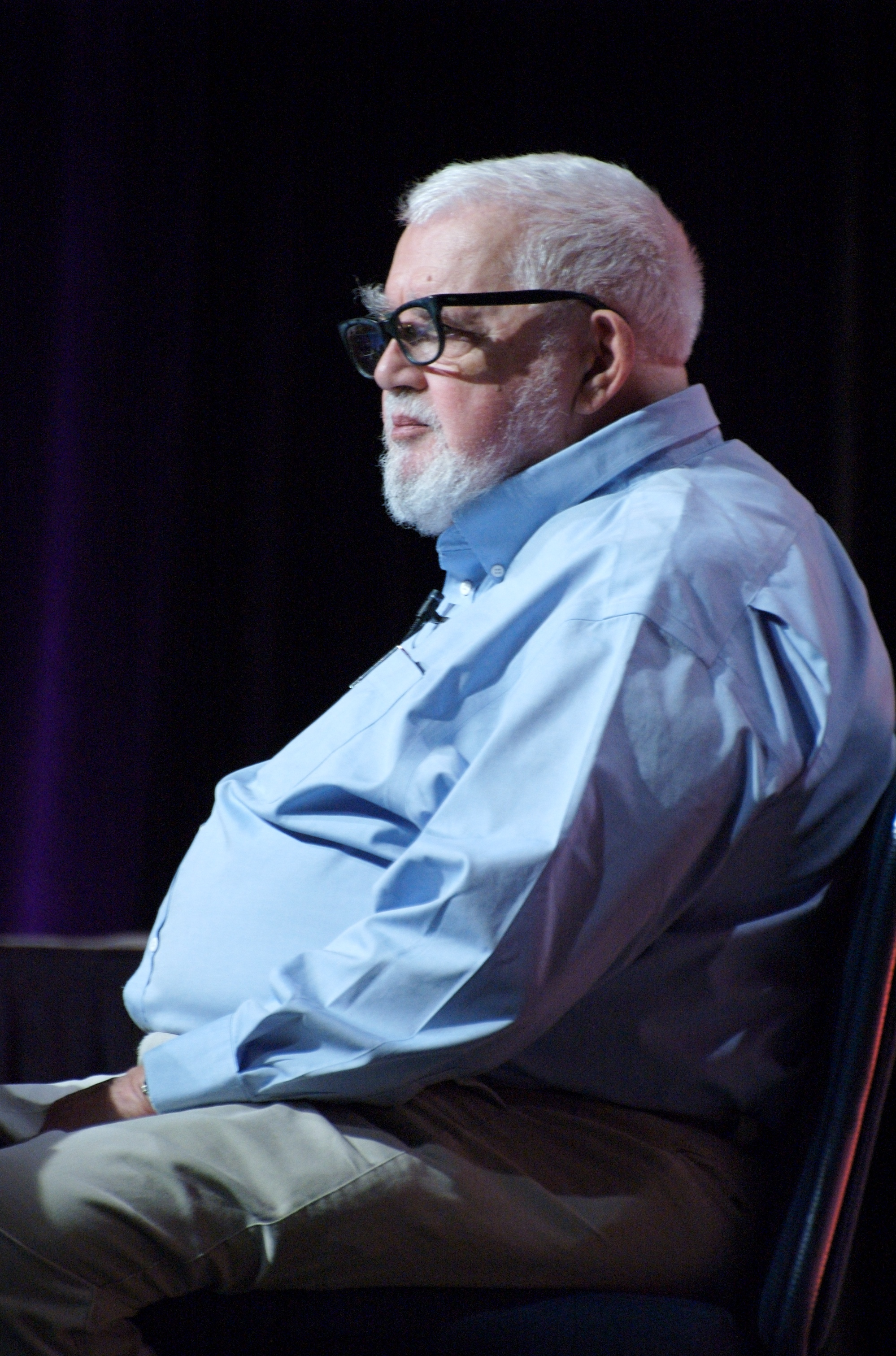 John McCarthy